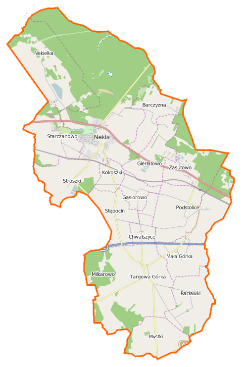 Map of Gmina Nekla, Poland This map of Nekla (gmina) was created from OpenStreetMap project data, collected by the community. This map may be incomplete, and may contain errors. Don't rely solely on it for navigation.